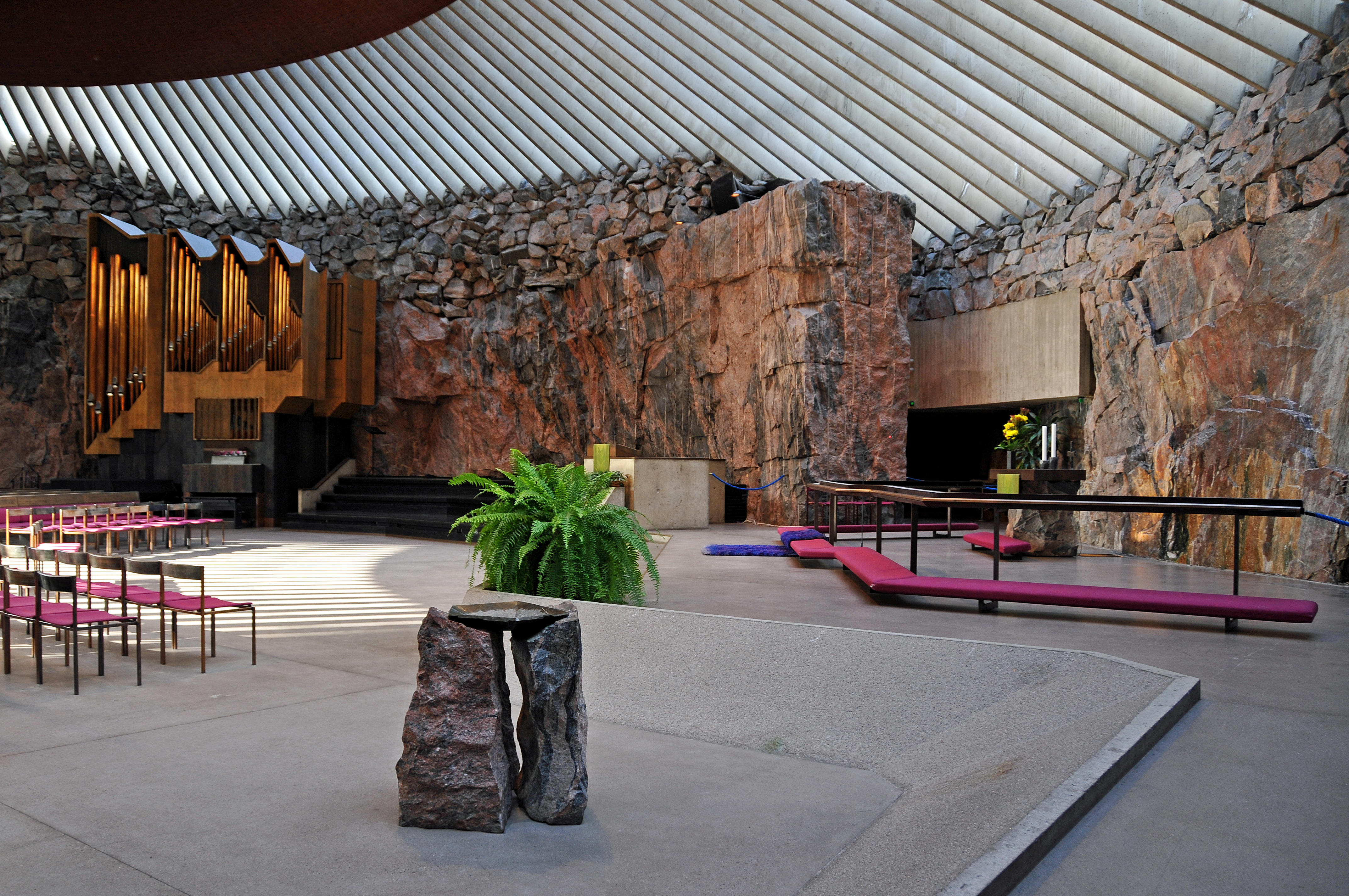 PLEASE, no multi invitations in your comments. Thanks. I AM POSTING MANY DO NOT FEEL YOU HAVE TO COMMENT ON ALL - JUST ENJOY. The Temppeliaukio church is one of the most popular tourist attractions in the city; half a million people visit it annually. The stone-hewn church is located in the Töölö neighborhood in the heart of Helsinki . Maintaining the original character of the square is the fundamental concept behind the building. The idiosyncratic choice of form has made it a favorite with professionals and aficionados of architecture. The interior was excavated and built into the rock, but is bathed in natural light entering through the glazed dome. The church is used frequently as a concert venue due to its excellent acoustics. The acoustic quality is ensured by the rough, virtually unworked, rock surfaces. Leaving the interior surfaces of the church exposed was not in the original plans for the church. The back wall of the altar is a majestic rock wall, originally created by a withdrawing glacier.